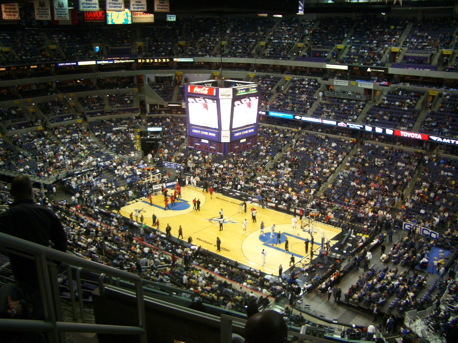 The Verizon Center in Washington D.C., home to the Washington Wizards of the National Basketball Association (NBA).